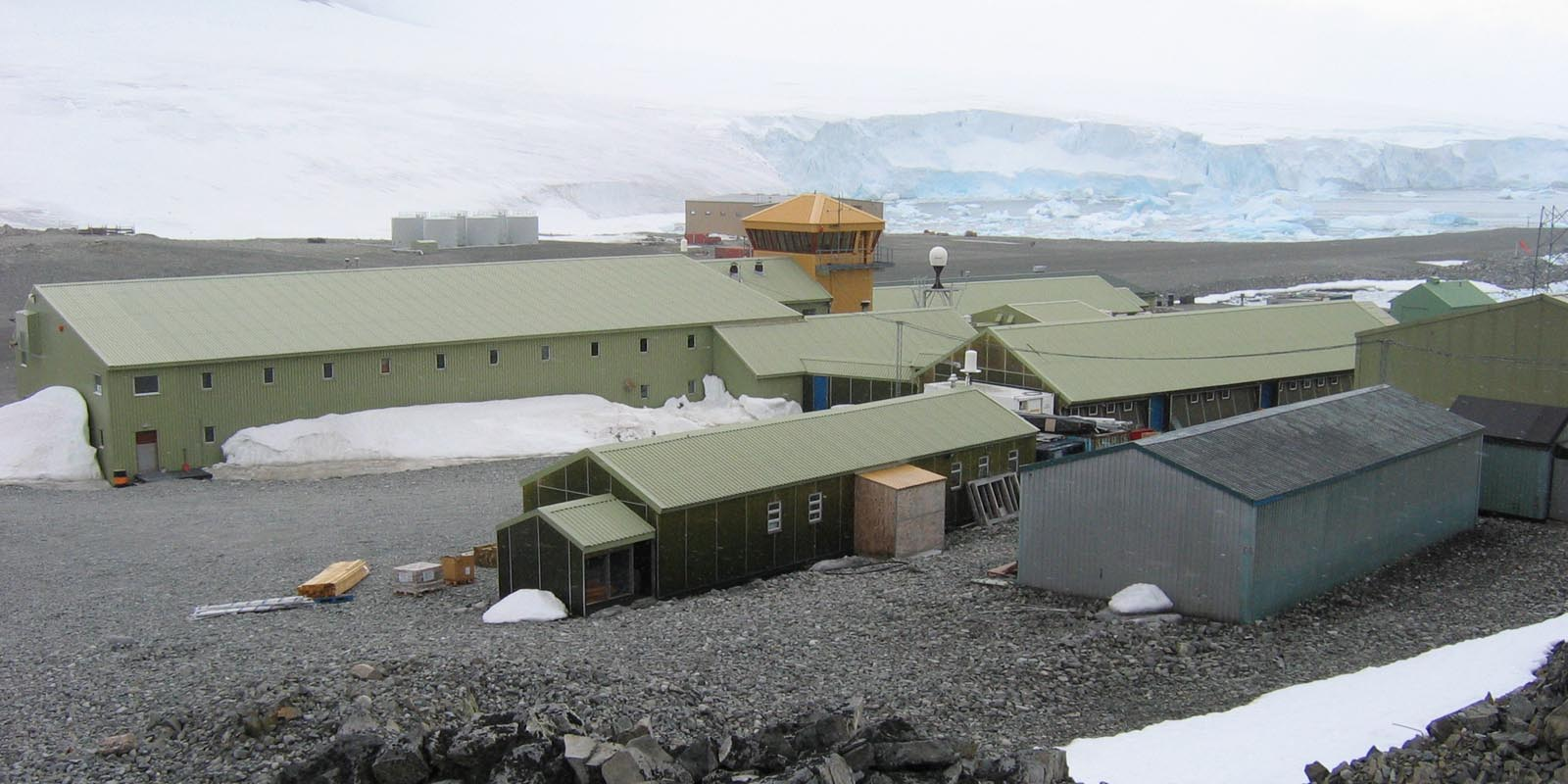 Rothera Research Station